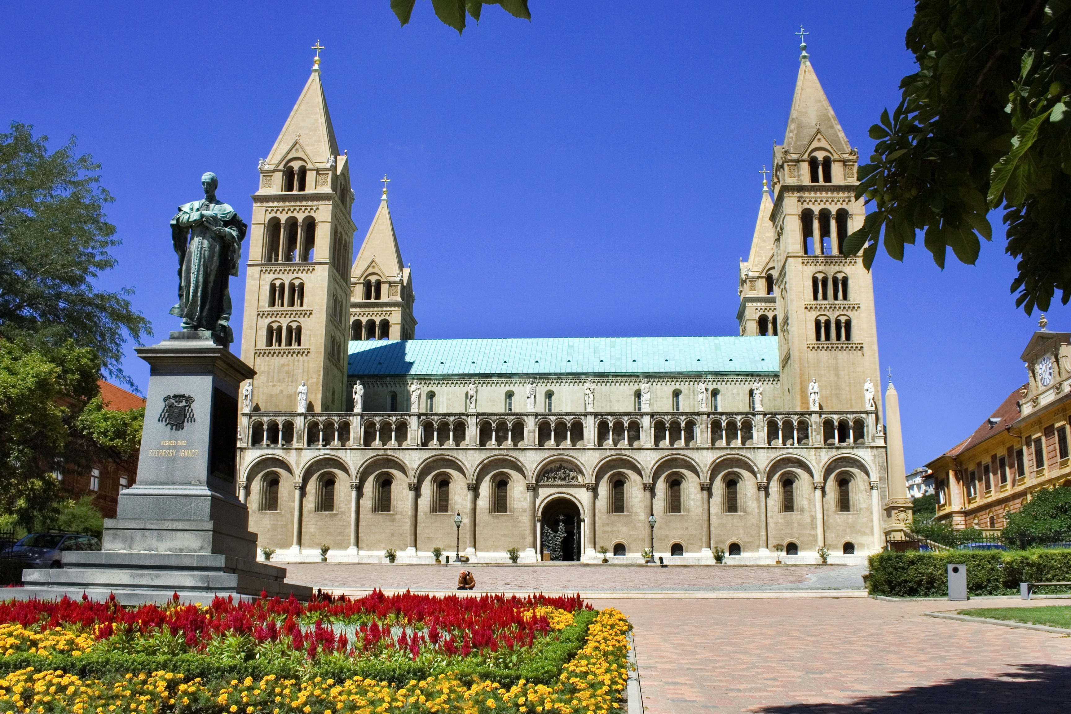 Pécs Cathedral - Hungary, founded in the 11th century, and subsequently much altered. It was rebuilt in the late 19th century in the Neo-Romanesque style. Romanesque churches This is a photo of a monument in Hungary, Identifier: 1796